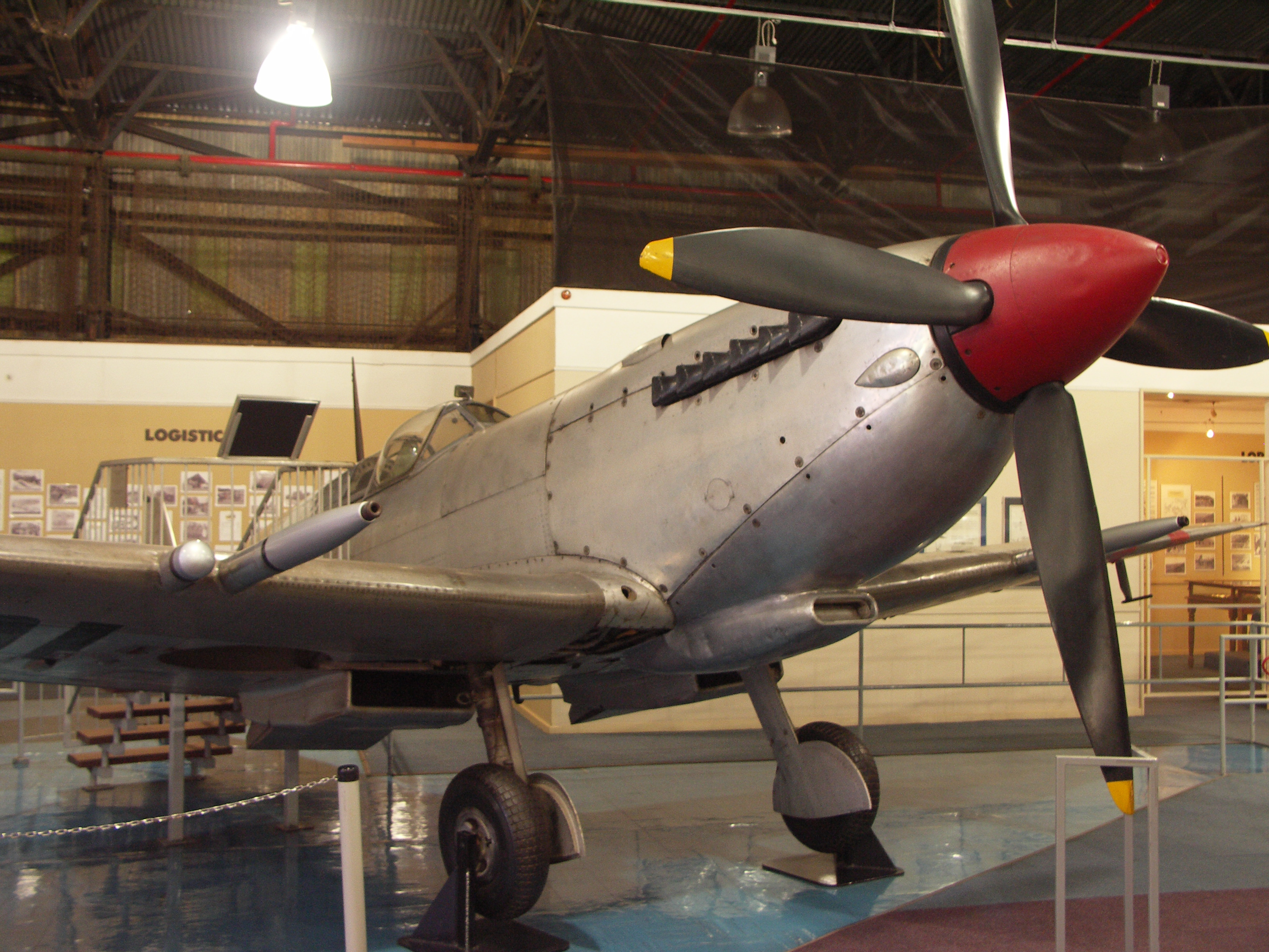 Supermarine Spitfire Mark VIII, JF294, displayed as 5501 at the South African National Museum of Military History, Johannesburg, South Africa